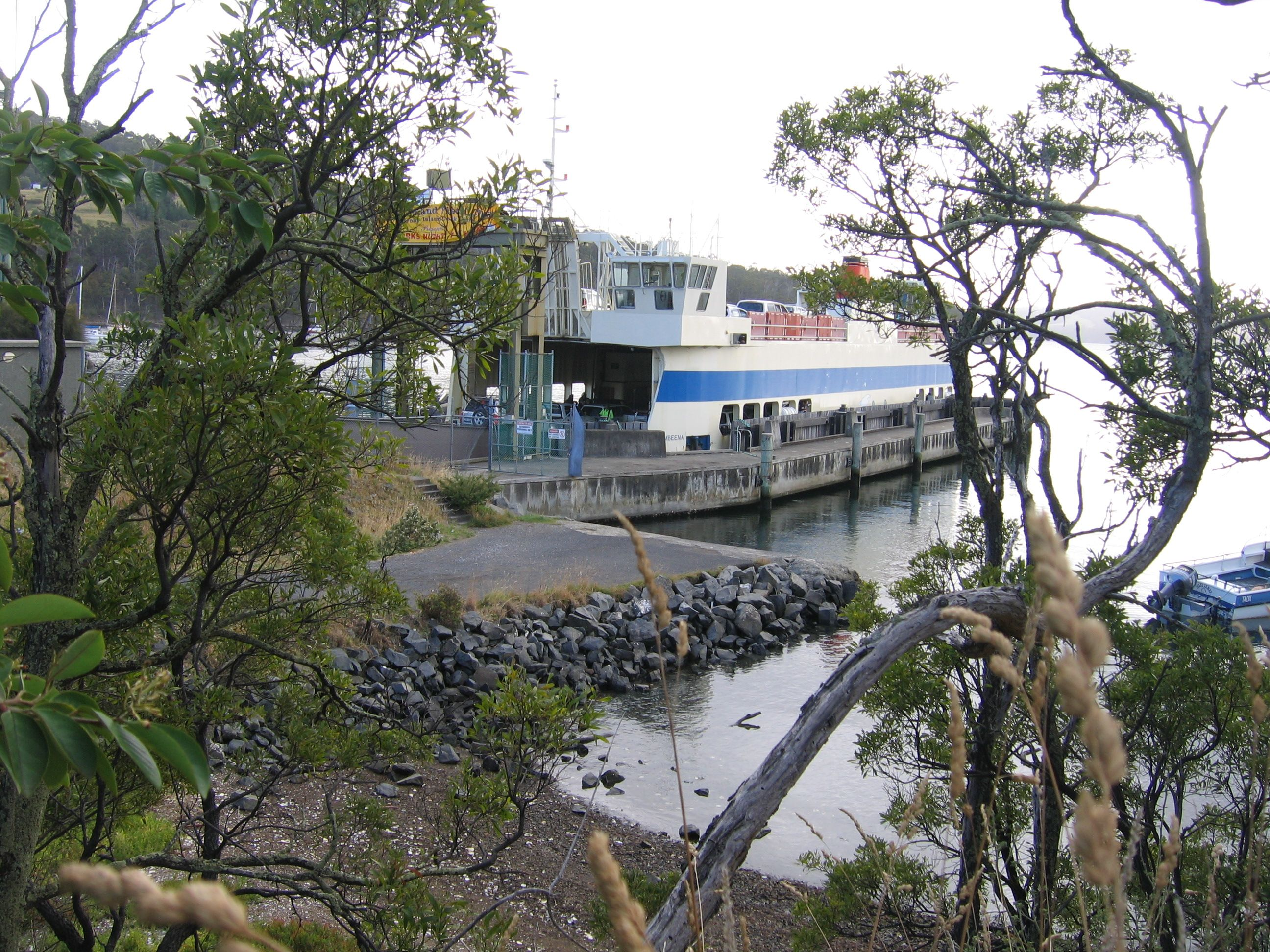 Ferry Kettering - Bruny Island, Tasmania, Australia